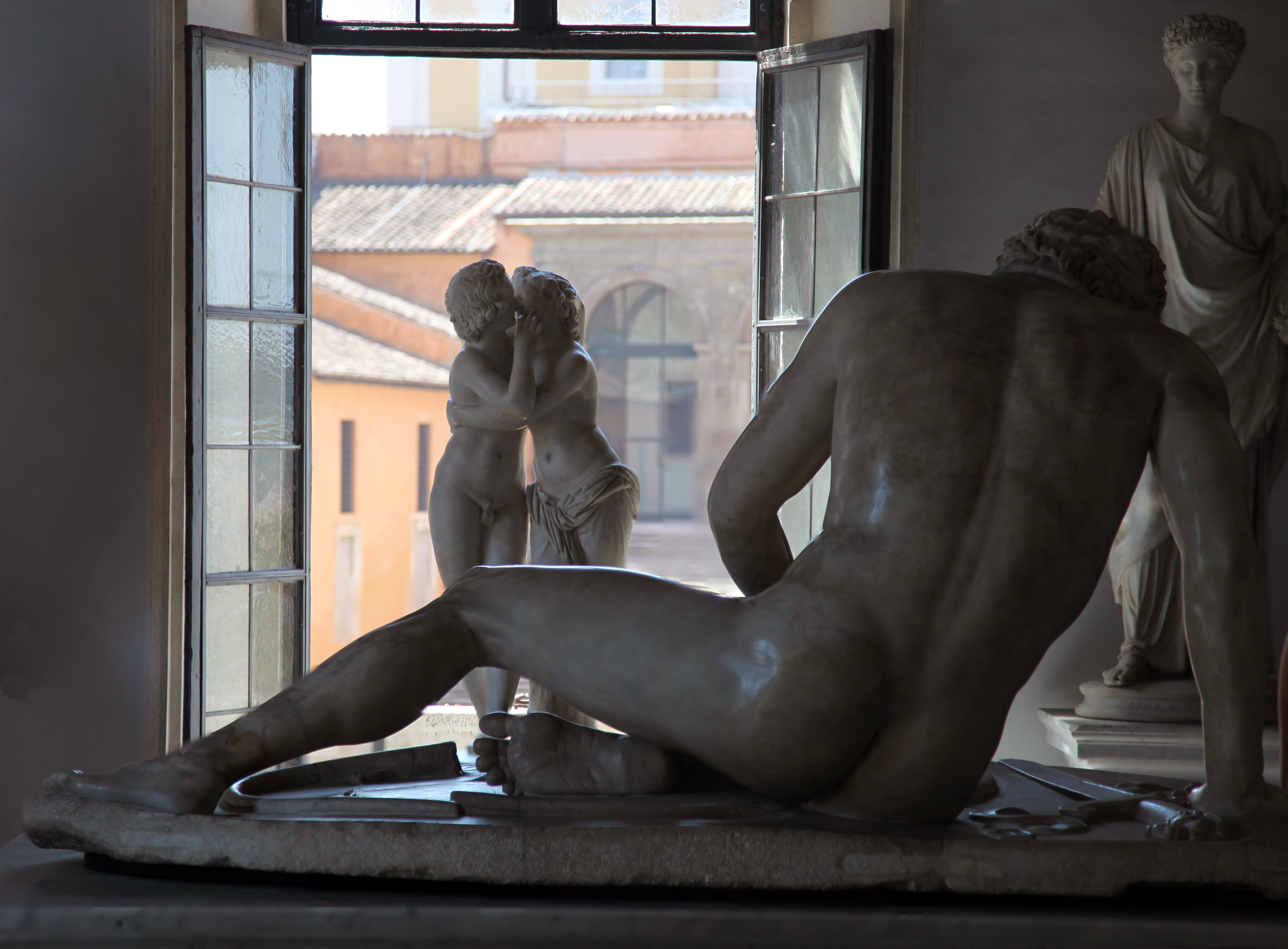 In front: Cupid and Psyche. Back: Galatian dying. Capitoline Museums, Rome.